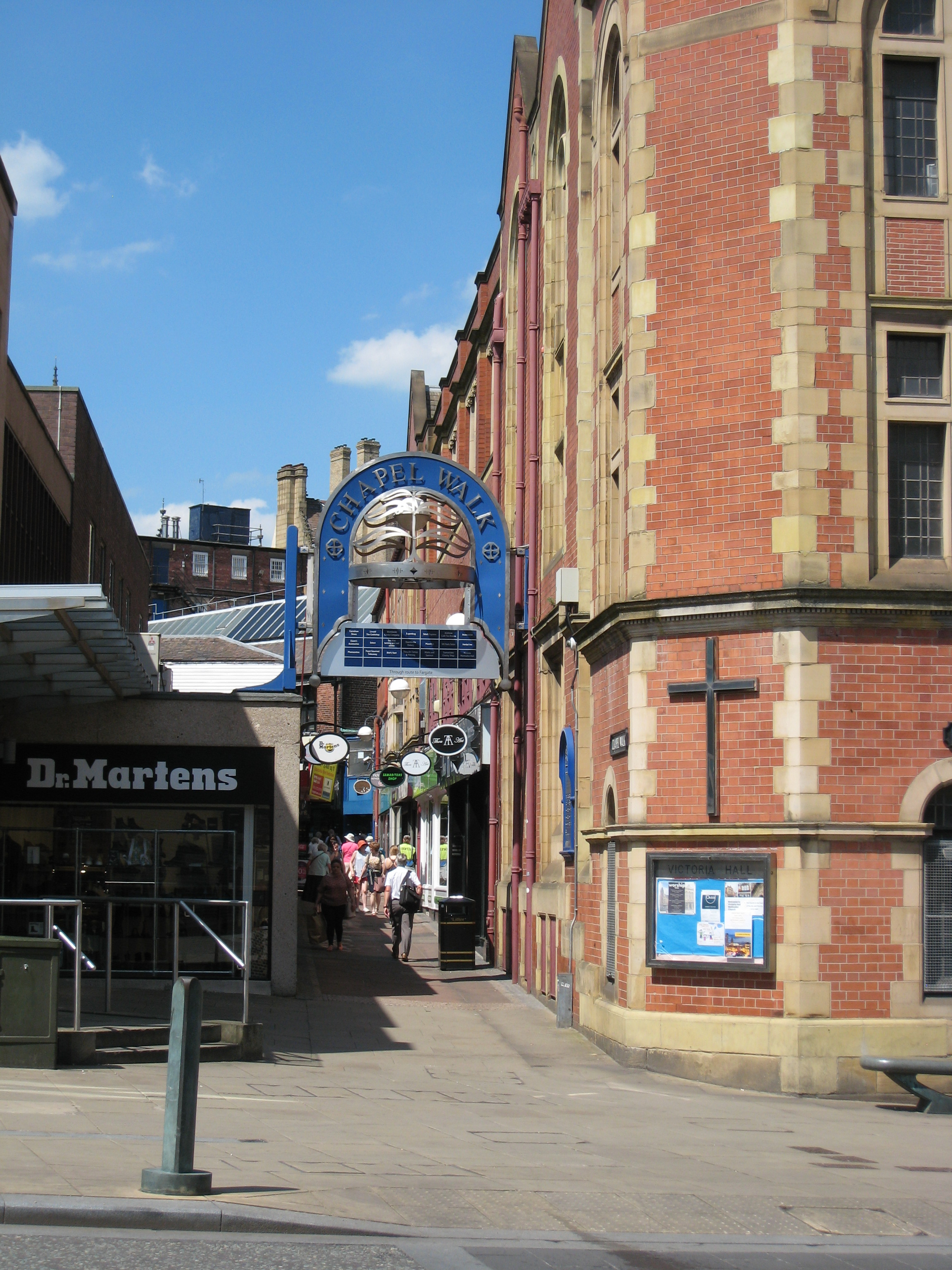 Chapel Walk, Sheffield, entrance from Norfolk Street, with Victoria Hall on the right.